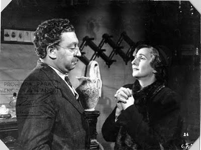 Nathan Pinzón y Margarita Corona